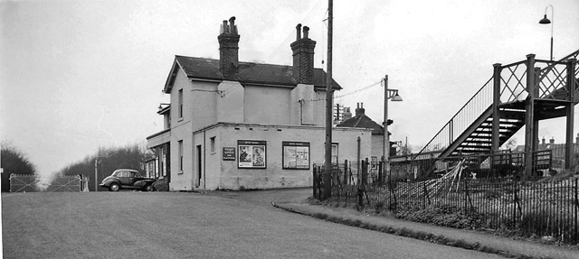 Bekesbourne Station. View westward, towards Canterbury East, Faversham, Chatham and London; London, Chatham & Dover main line.